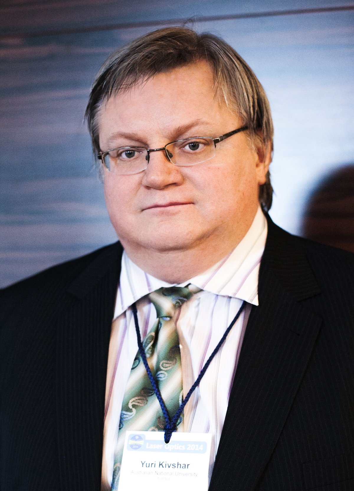 Professor Yuri Kivshar, scientist